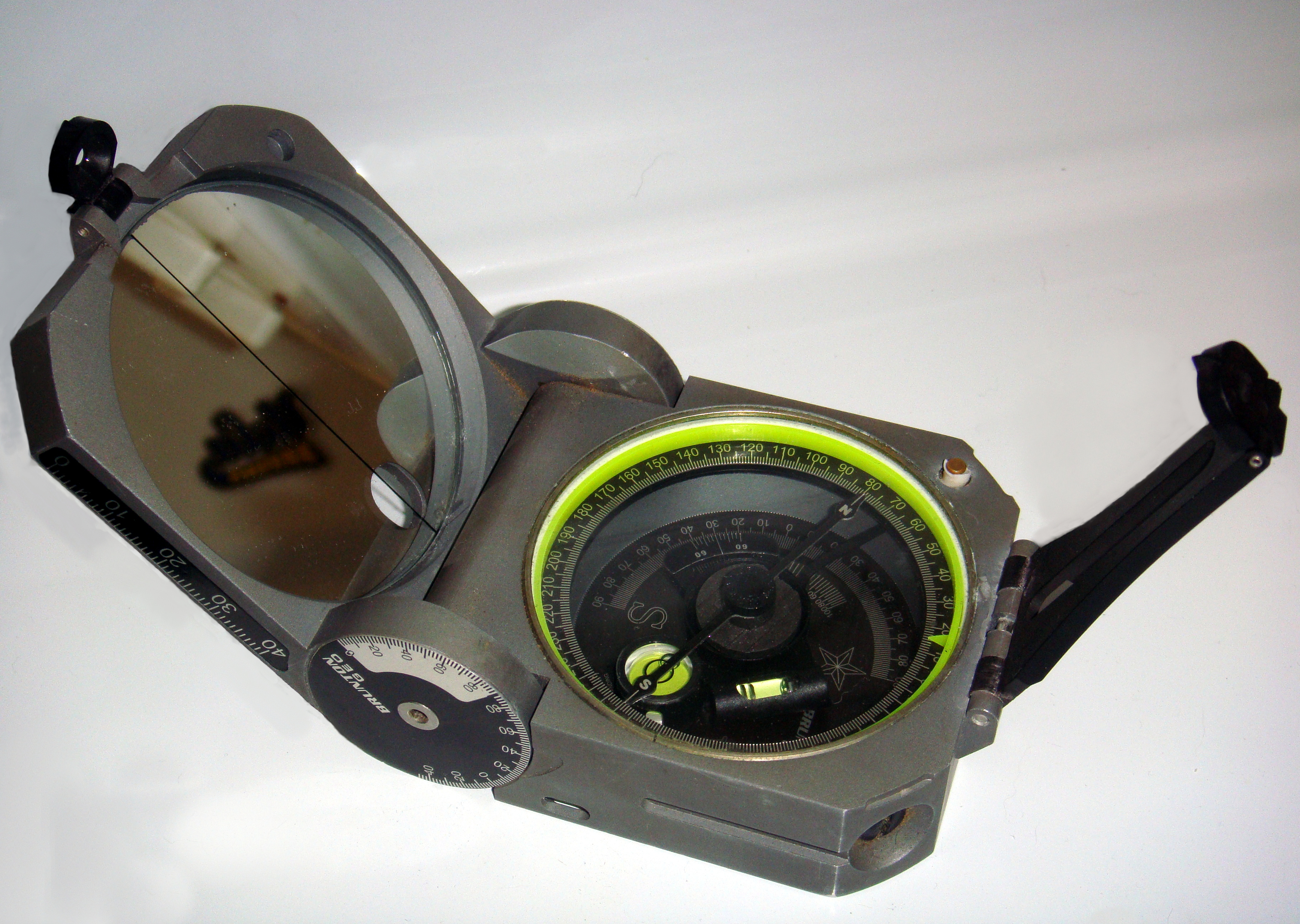 A Brunton Pocket Transit, a specialized compass used by geologists and other field-based surveying over long distances. From left to right: The mirror, with line and sighter on top of the mirror, and window to look through the window; millimeter scale on side of mirror; hinge with angle measurement on side (set at ~50 degrees); the face, with azimuth degrees around the outside of the face measuring 0-359 degrees, the needle (with North hand pointed at 79 degrees); the bubble level; the inclinometer (set at ~30 degrees), a magnetic declination setting (green point on the outer ring, set to ~15 degrees); on the outside of the face is the damping button (with arm projecting from it seen in face); and finally, a sighting arm to the right.